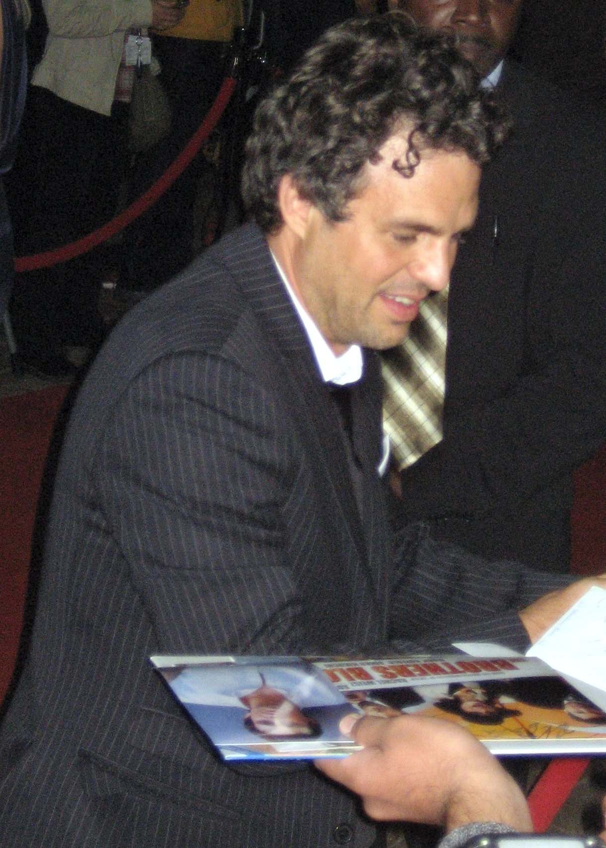 Mark Ruffalo at the premiere of The Brothers Bloom, Toronto Film Festival 2008